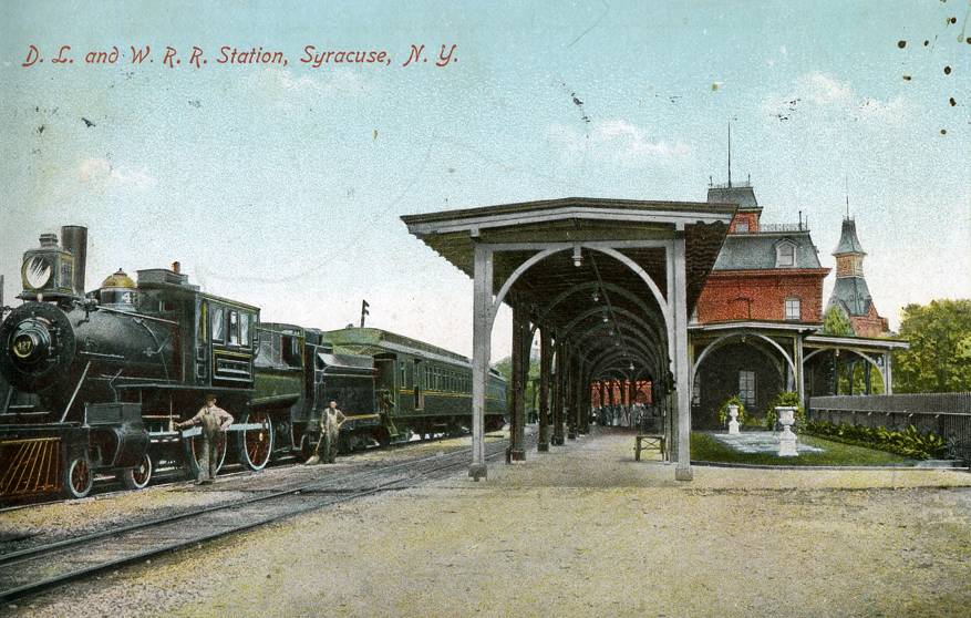 Syracuse, NY